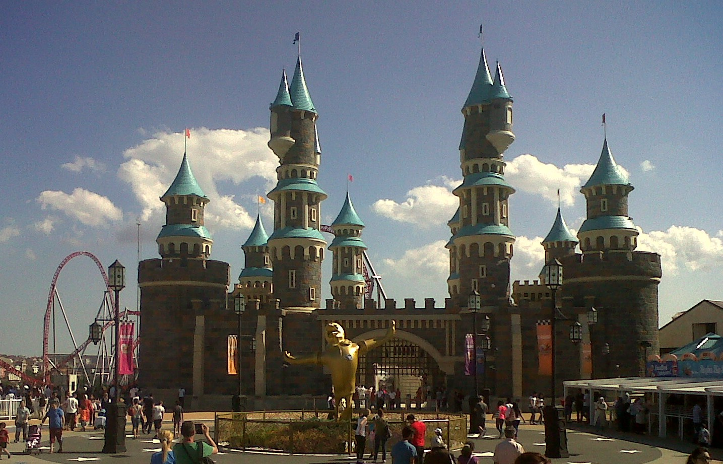 Vialand Theme Park, İstanbul